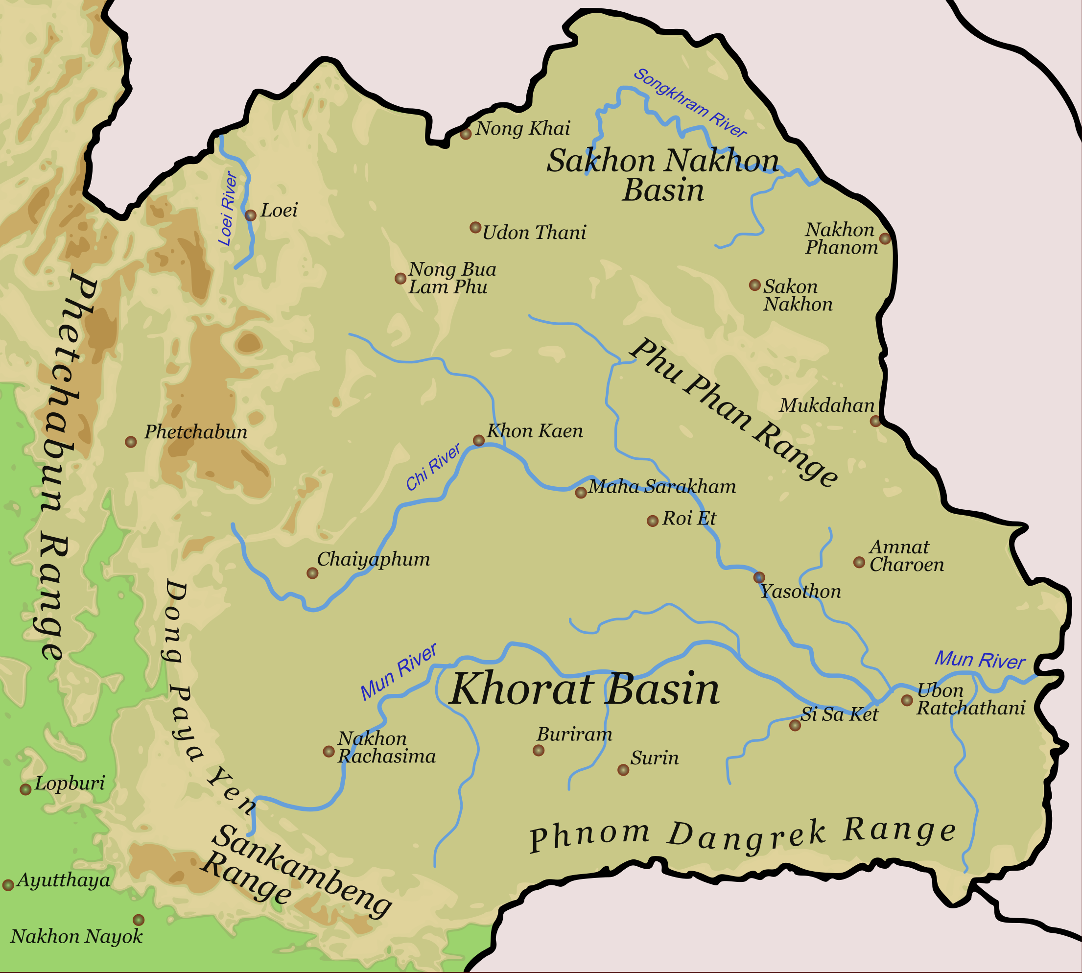 Physical orientation map of North-East-Thailand